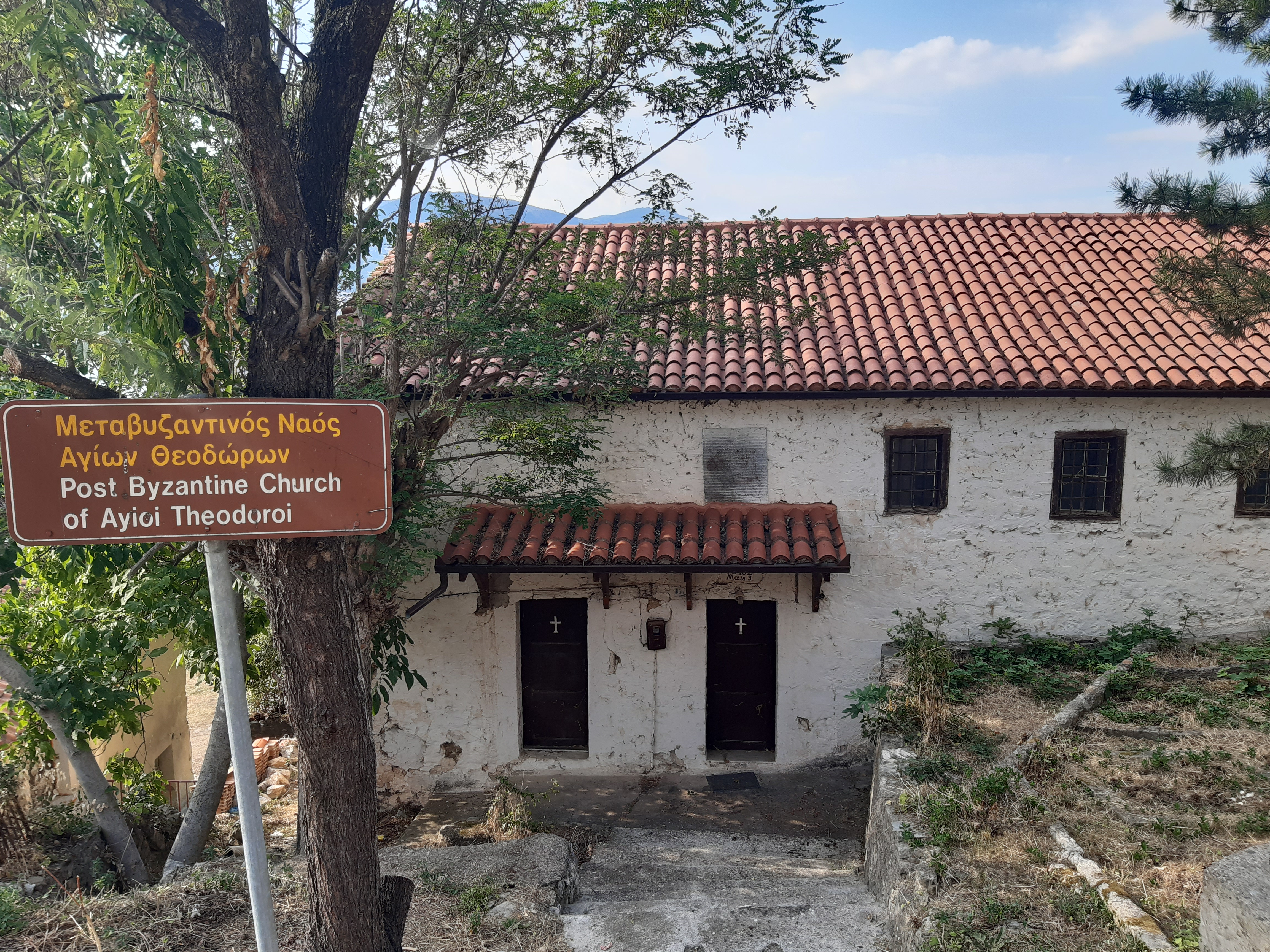 Sts. Theodore Tyron & Theodore Stratelates, Kastoria